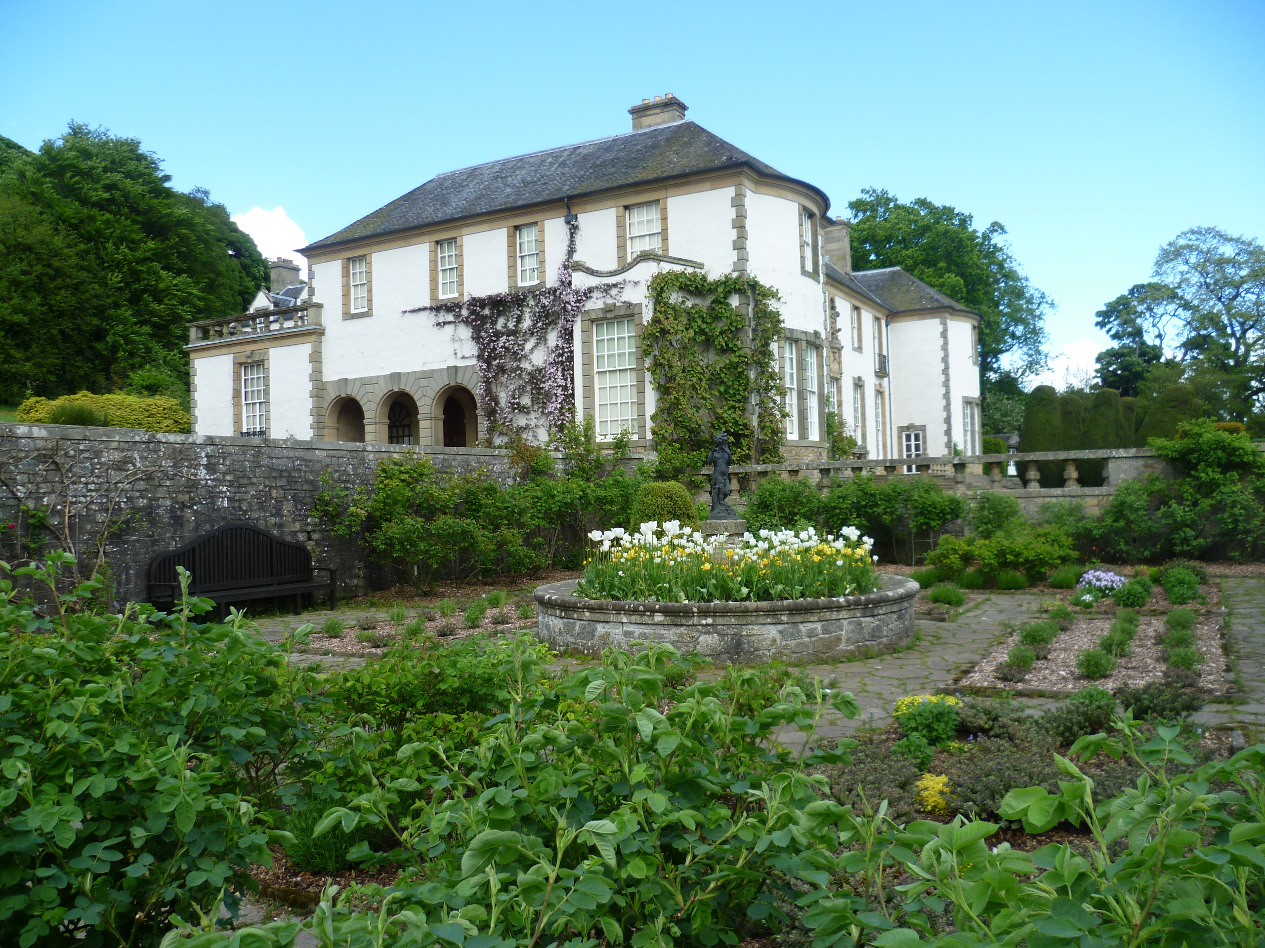 Hill of Tarvit, near Cupar, Fife